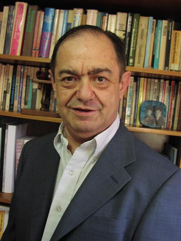 dan caspi